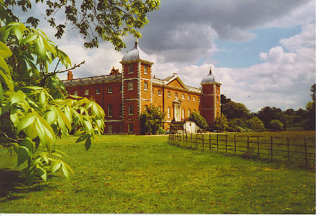 Osterley House, the West Front. Rus in urbe.